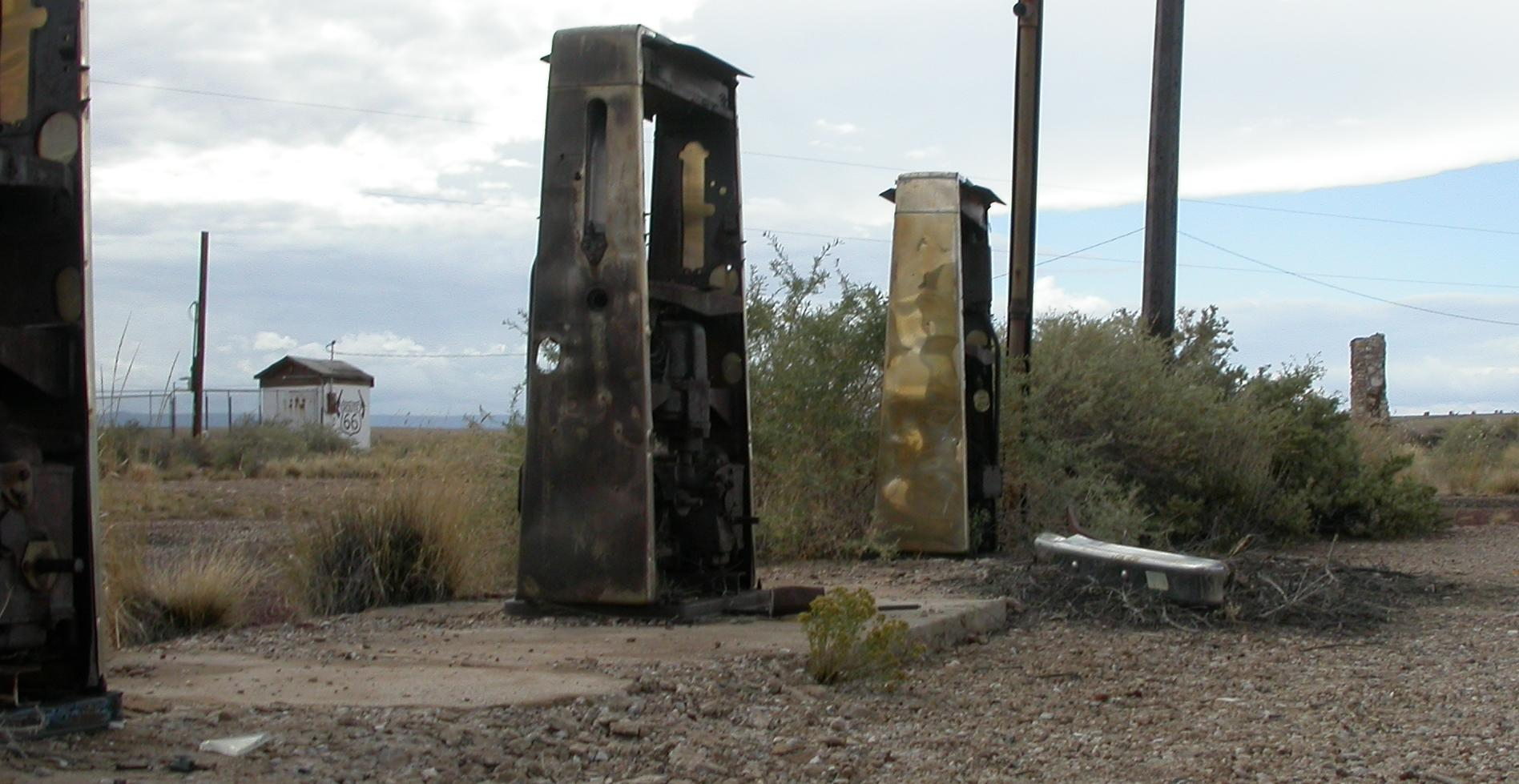 Abandoned gas pumps - Two Guns, Arizona.